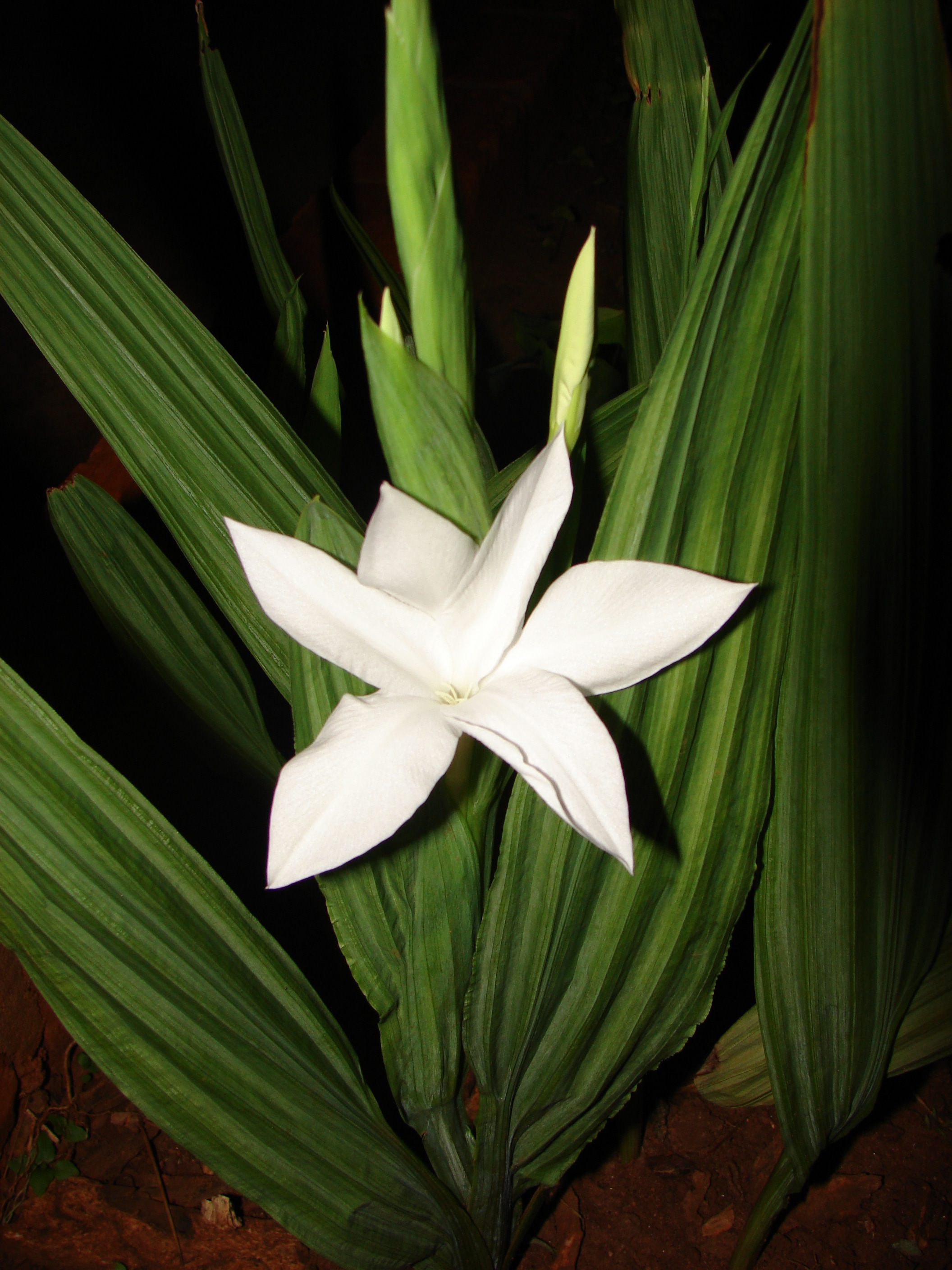 Savannosiphon euryphyllus is a monotypic genus in the family Iridaceae. The blooms are about 2 to 3 inches across and open at night about an hour or two after the sunset and wither just after daybreak. The flowers have no fragrance but appear to be pollinated by Hawk moths as observed by the author. The leaves are pleated and stand about 12 to 18 inches tall.